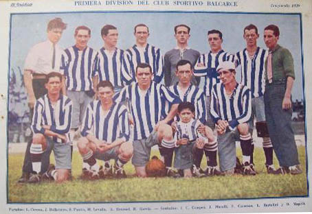 Argentine club Sportivo Balcarce football team.